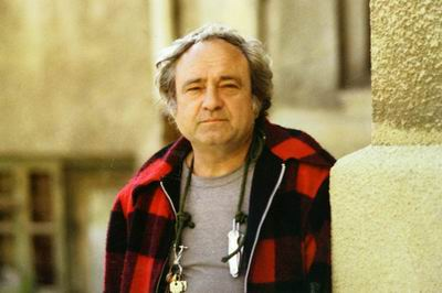 Photograph